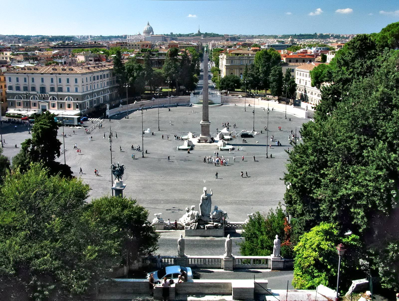 Rome, Piazza del Popolo, view from the Pincio, September, 2004.